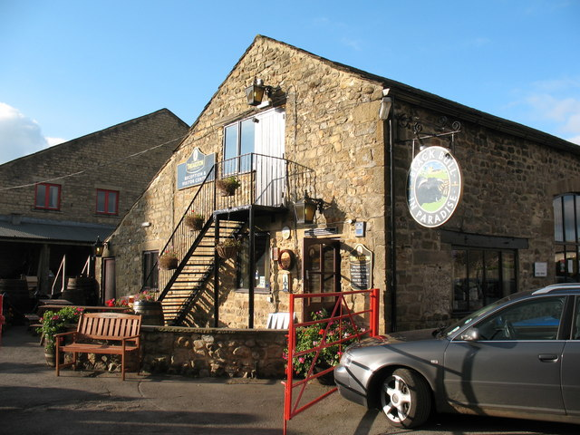 Theakston Visitor Centre Visitor centre at Theakstons Brewery - just the place for your 'Old Peculier' apron.